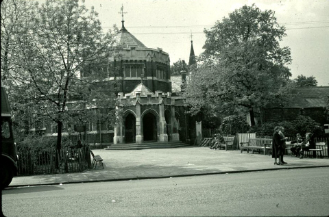 Didsbury Library. Taken about 1955. Its appearance has not changed much.